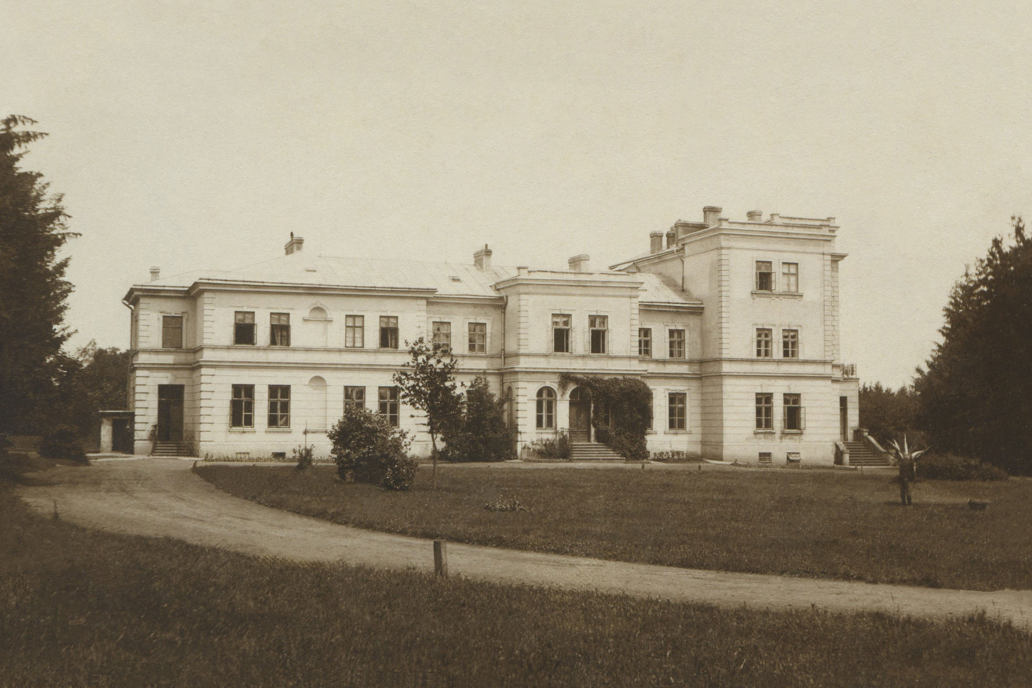 Hliboka (ukr. Глибока, rum. Adâncata) in 1925